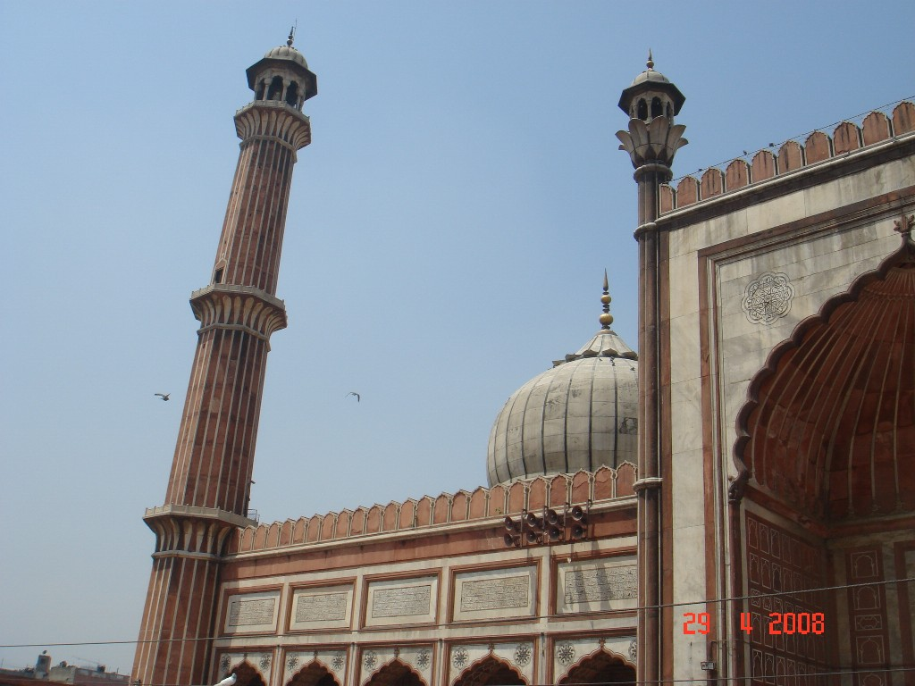 Picture taken by Kaiser Tufail during visit to Delhi, 29-4-08